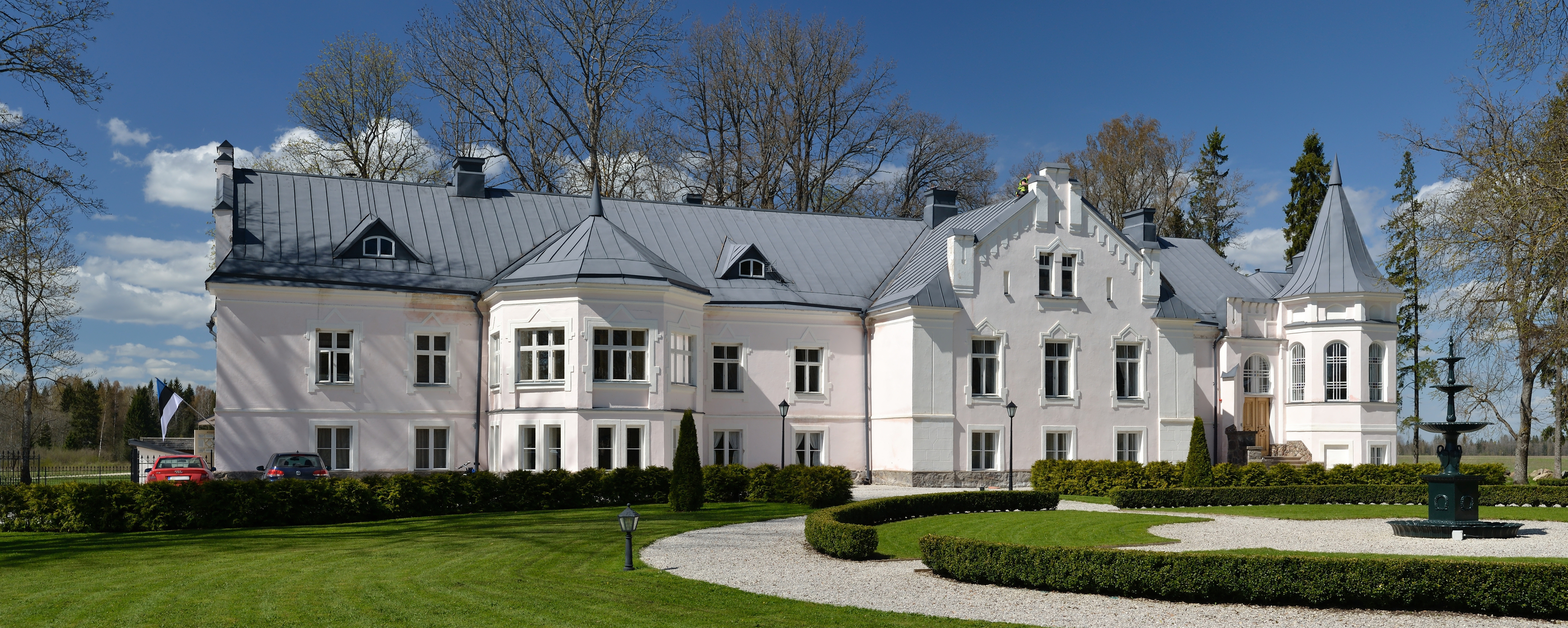 Eivere manor main building